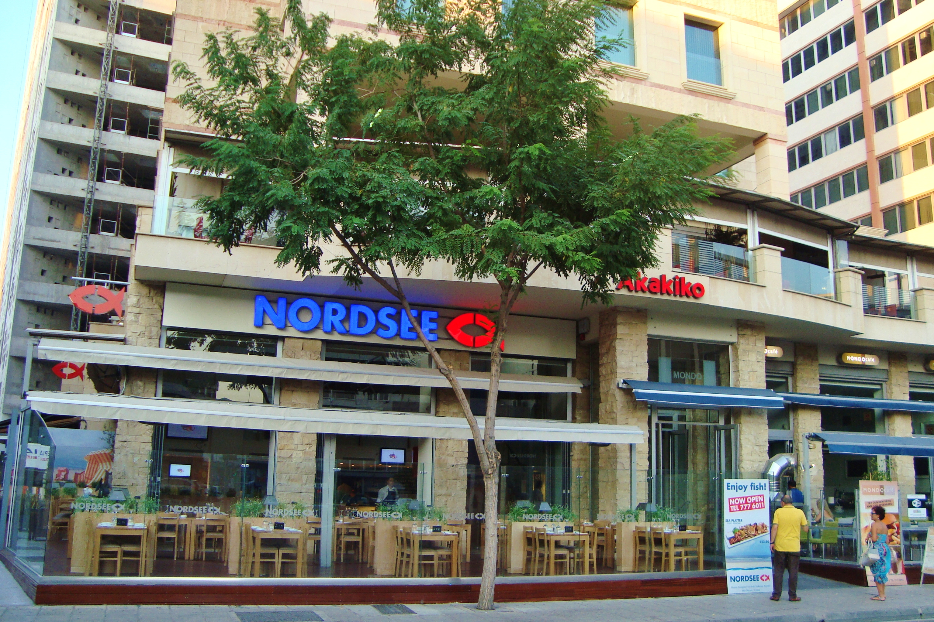 Nordsee German fast-food restaurant chain in Makariou Avenue Nicosia Republic of Cyprus